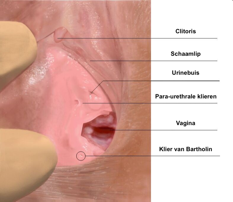 Skenes and Bartholin's glands. (Dutch translation of an image uploaded to the English Wikipedia.)